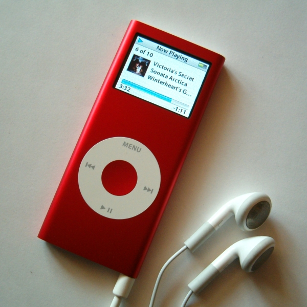 Apple iPod nano 2nd generation PRODUCT (RED)